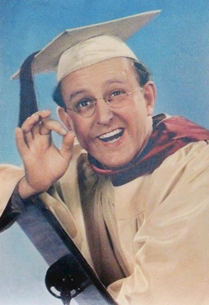 Photo of Kay Kyser from a 1942 New York Sunday News magazine. The magazine contains four color photos of Kay Kyser, Nan Grey, Eve Arden and George Tobias with Gene Autry File:Gene Autry 1942.JPG on the cover. Kyser is performing his "Ol' Perfesser" character from the act which brought him and his band to national attention: The "Kollege of Musical Knowledge". Kyser and the orchestra performed this act as part of their show on radio, at personal appearances and in films. A search for renewals was done in periodicals for the years 1969 and 1970 There were no listings for New York Daily News or New York Sunday News--the first "New York" listing is for New York Supplement. There's no evidence of renewal for the newspaper.